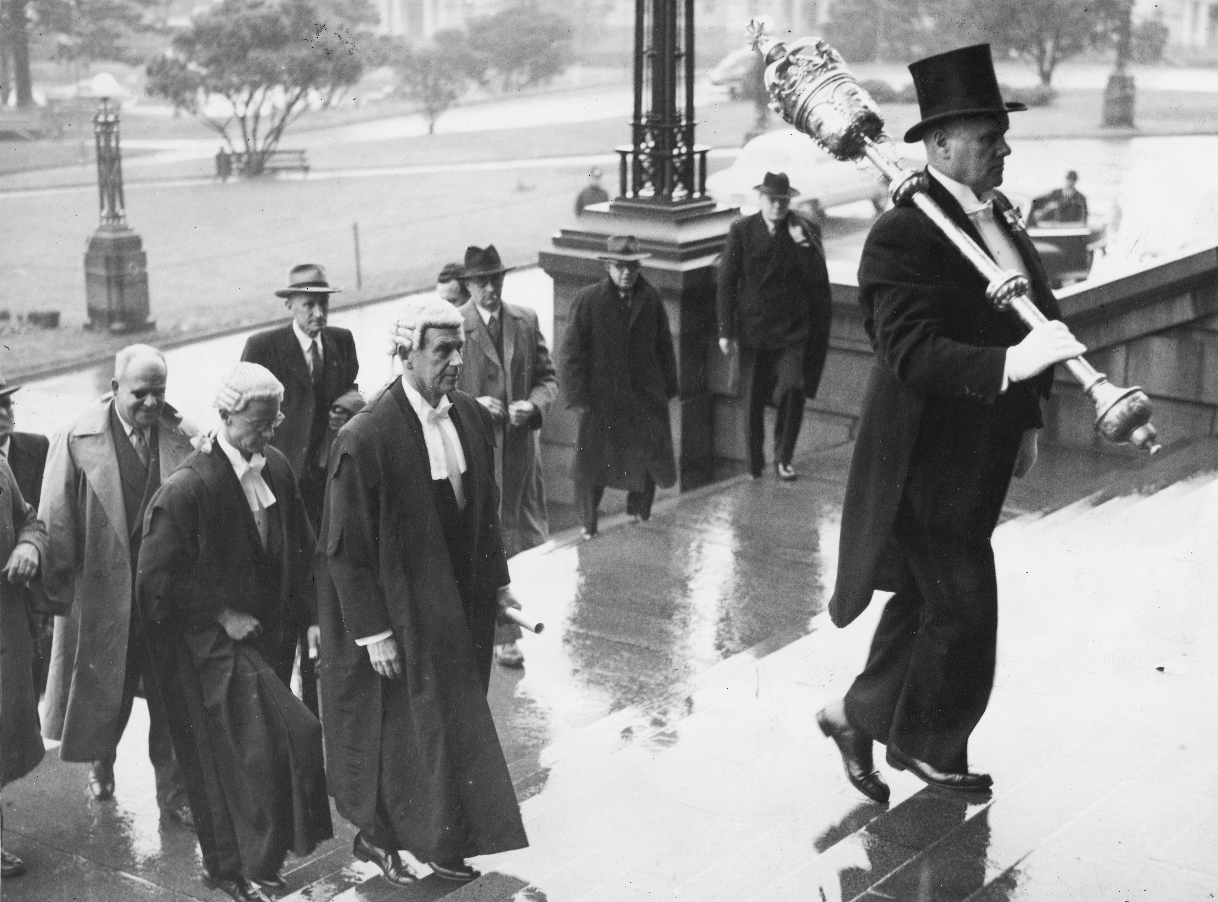 Original caption from the New Zealand Free Lance, 5/7/1950, reads: "New Zealand's 29th Parliament was opened last week by commission in the Legislative council chamber, Parliament Buildings, Wellington. Sittings of both the House of Representatives and the Legislative Council followed, and M H Oram, M P for Manawatu, was elected Speaker of the House of Representatives. On the second day, the ceremonial opening by His Excellency the Governor-General, Sir Bernard Freyberg, V C, took place...Returning to Parliament Buildings after presenting himself at Government House for His Excellency's approbation: the new Speaker of the House, Hon M H Oram, preceded by the Serjeant-at-Arms, Group Captain A J Manson, M C (with mace), and followed by the Clerk of the House, H N Dollimore."